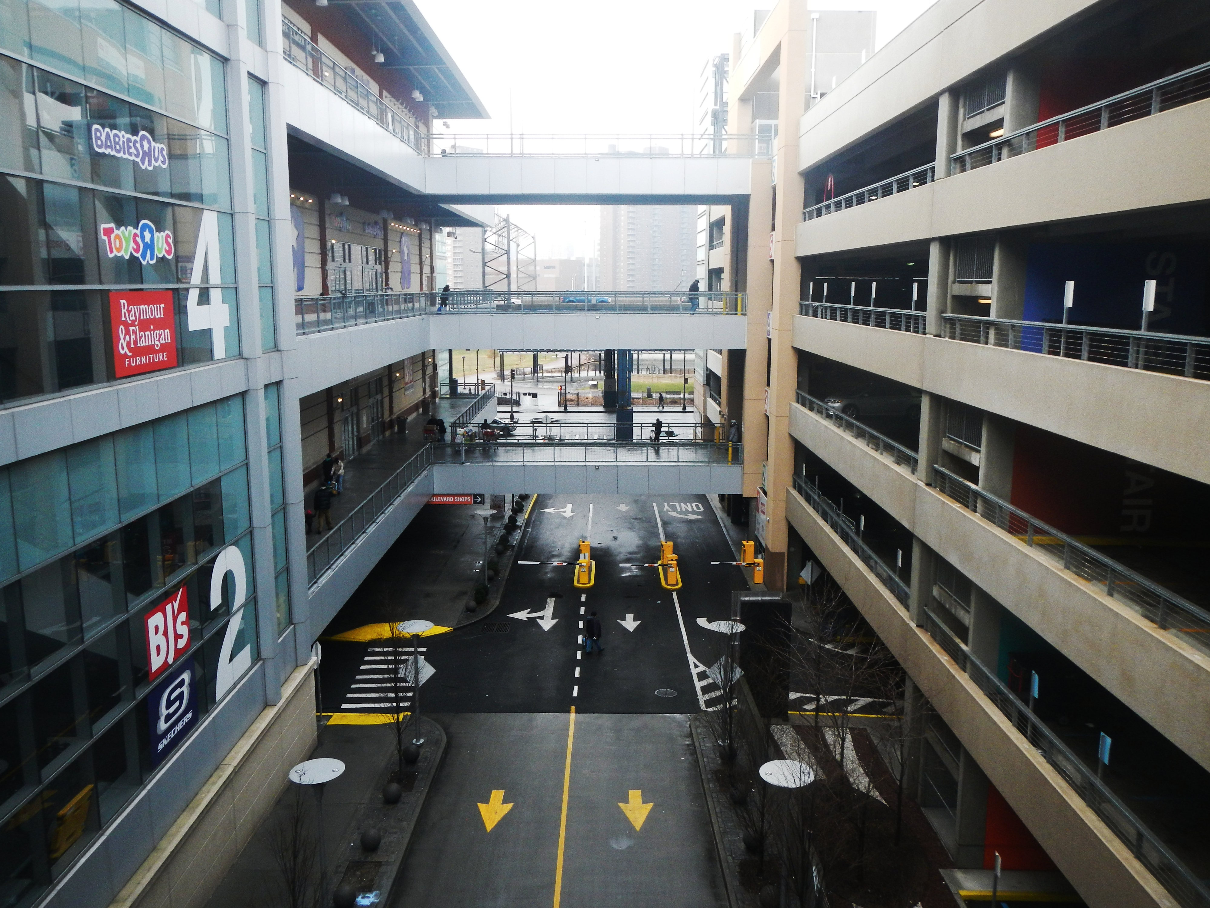 Looking west between Bronx Terminal Market's southern stores and parking on a cloudy day.